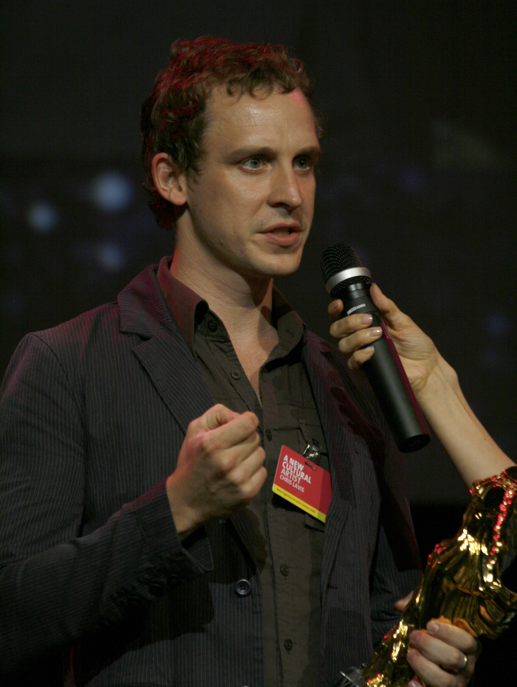 Chris Lavis, winner of the 'Golden Nica' in the category 'Computer Animation/Film/VFX' of the Prix Ars Electronica 2008 (Brucknerhaus, Linz).